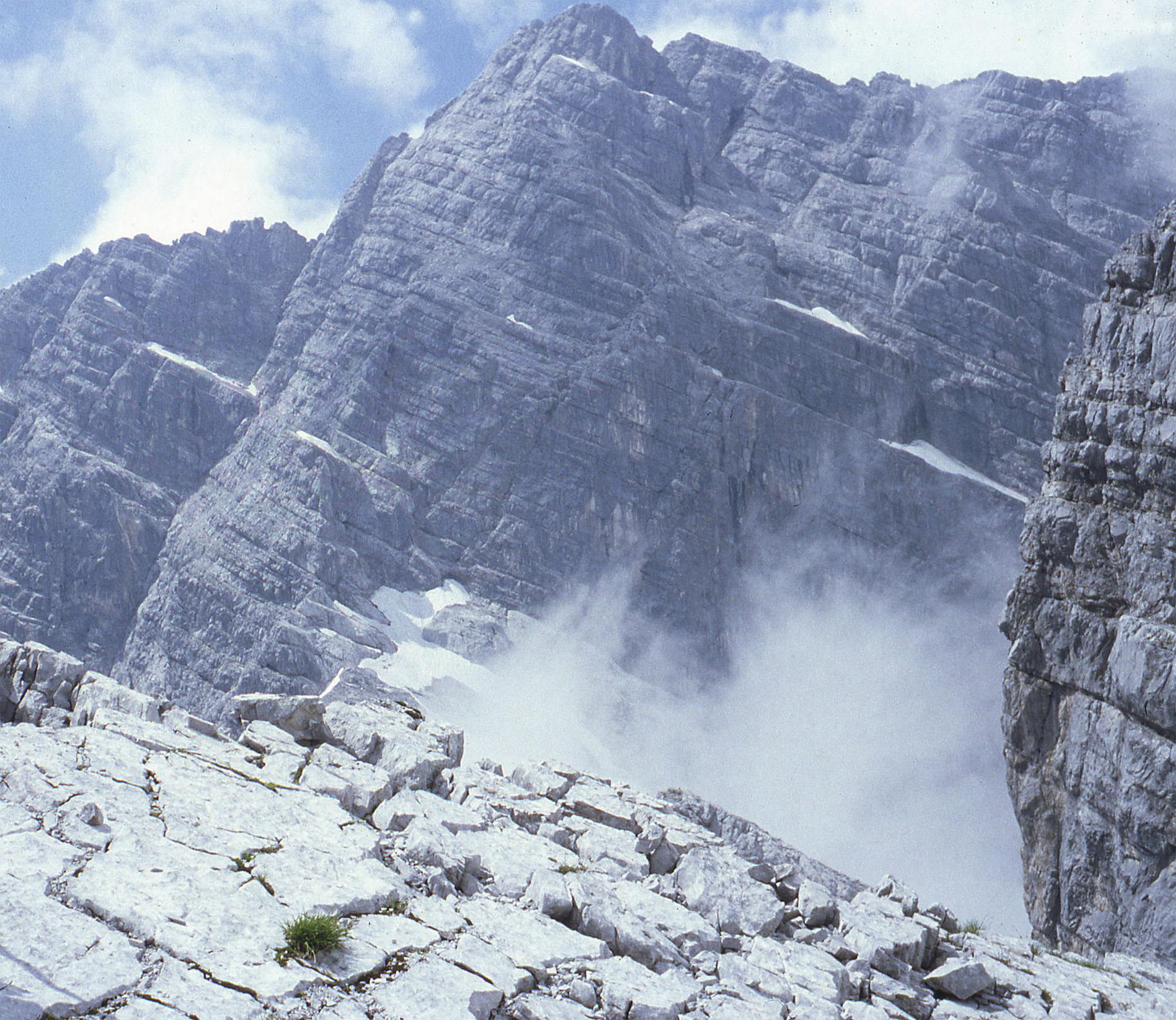 Bedded Dachstein Limestone in the southeast wall of Mt. Watzmann seen from 3rd Child, Bavarian Alps, Germany.